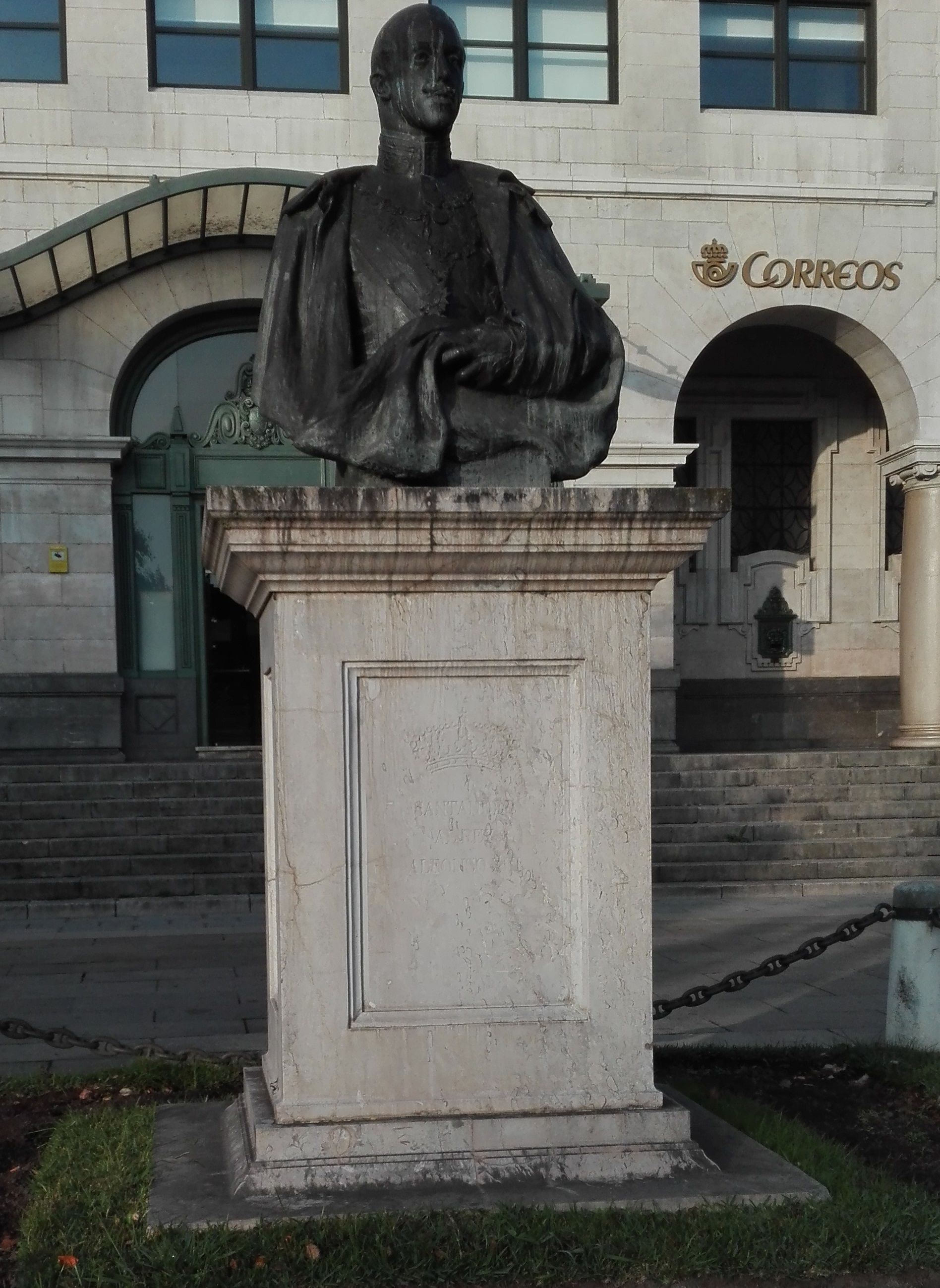 Monument to King Alfonso XIII of Spain in the Plaza de Alfonso XIII of Santander, Cantabria, Spain. In the monument, it is written "Santander al Rey Alfonso XIII (Santander to the King Alfonso XIII)". This is because the monument was promoted by popular iniciative. The statue consists of a bust of the king, made of bronze and placed on a marble pedestal.